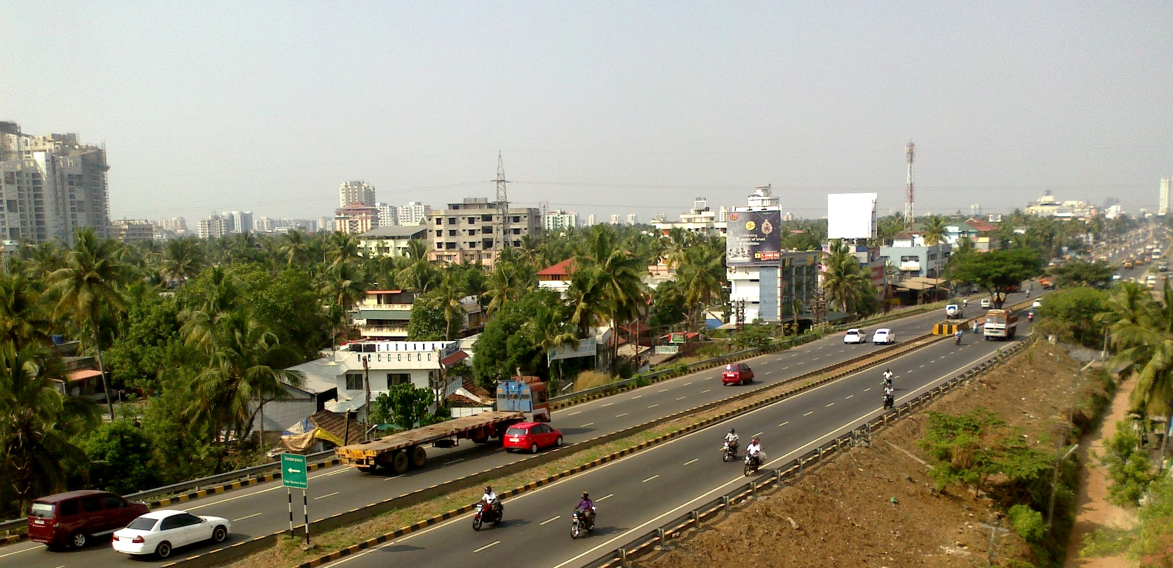 Near Vytilla